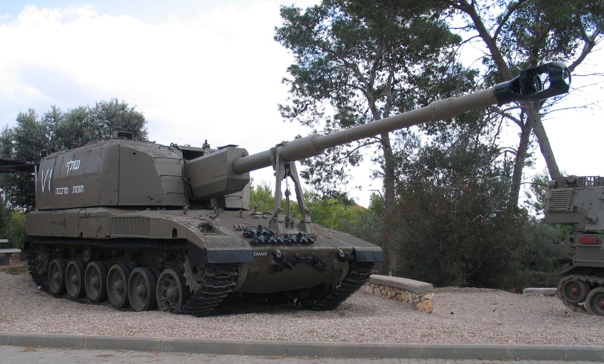 Description: Sholef (aka Slammer) Israeli 155 mm self-propelled howitzer on Merkava tank chassis in Beyt ha-Totchan, Zichron Yaakov, Israel. 2005. Source: Photo by me, User:Bukvoed.